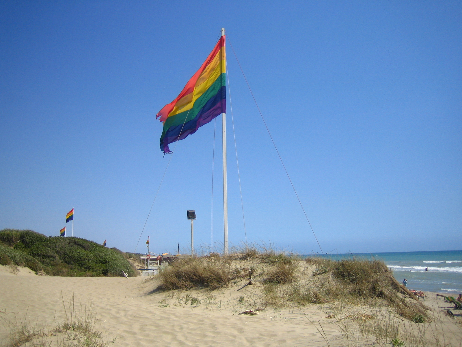 Striking contrasts.